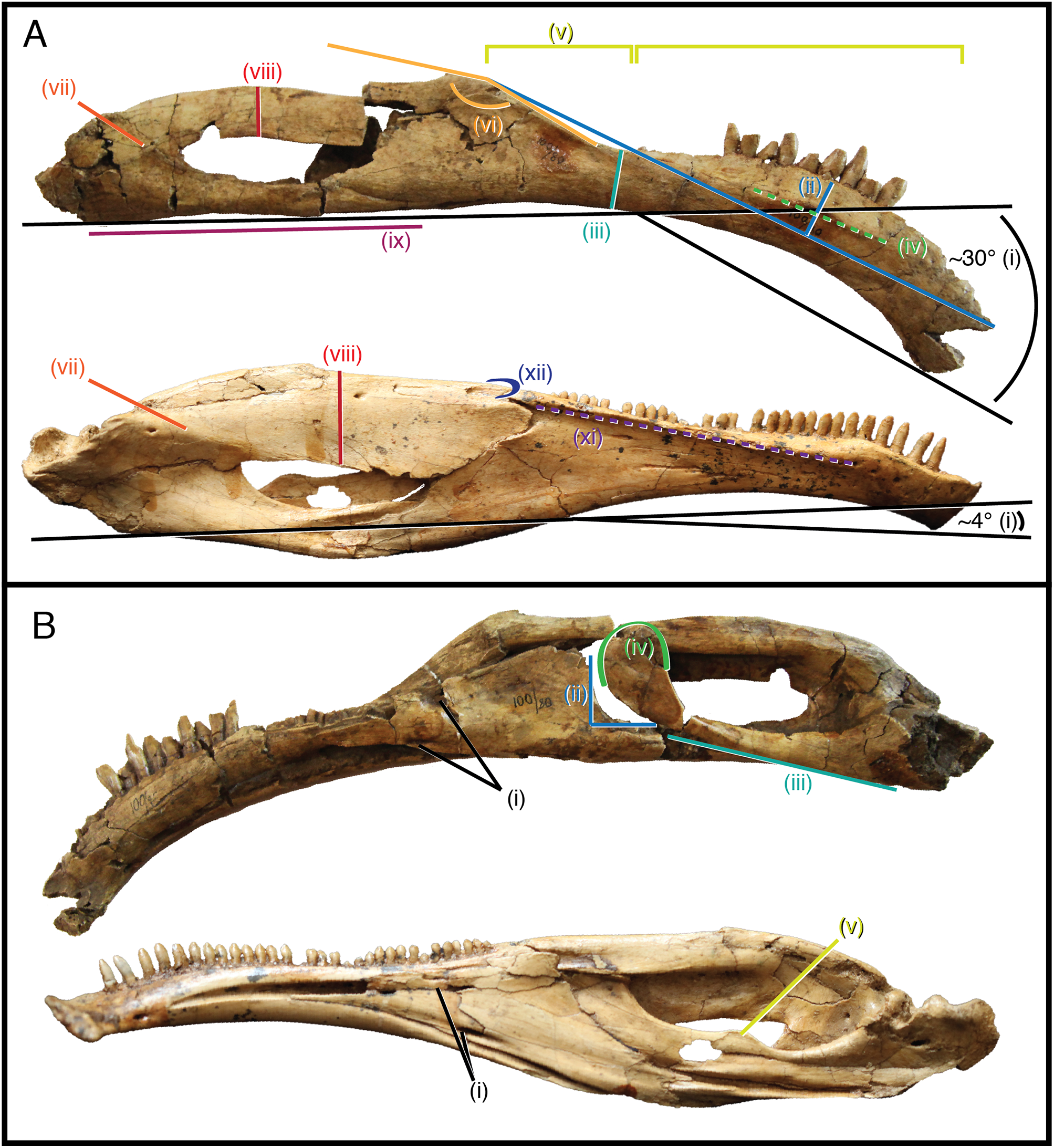 (A) Right hemimandible of Segnosaurus galbinensis (superior) and left hemimandible of Erlikosaurus andrewsi (inferior, reversed) in lateral view; (B) Right hemimandible of Segnosaurus galbinensis (superior) and left hemimandible of Erlikosaurus andrewsi (inferior, reversed) in medial view. Abbreviations (i–xii) refer to diagnostic traits discussed in text. Elements scaled to same size.